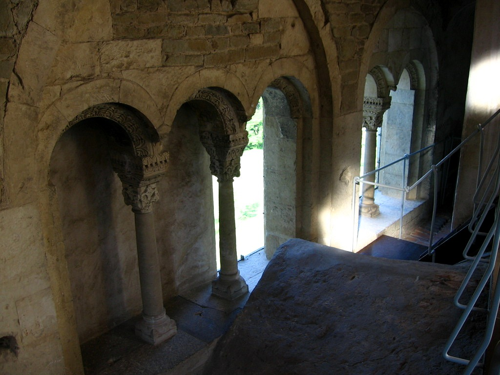 Jindrich Zdik´s Palace in Olomouc, The Czech Republic